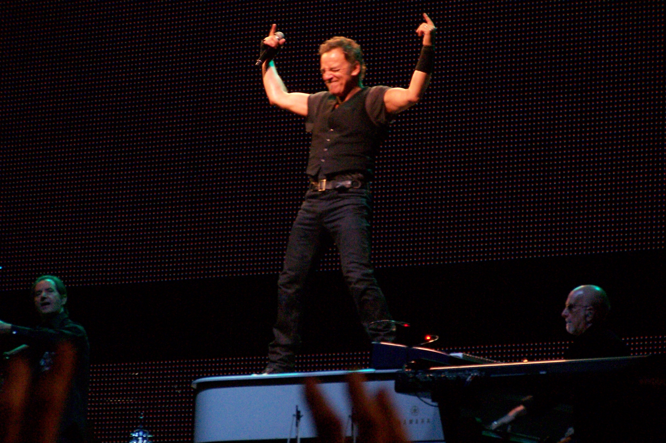 Boss power!!! Bruce Springsteen exhorting the audience during "Raise Your Hand", Working on a Dream Tour, Estadio José Zorrilla, Valladolid, Spain